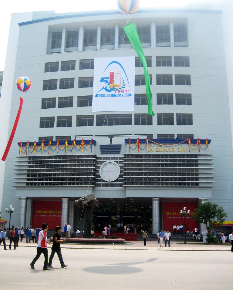 Ta Quang Buu Library at Hanoi University of Technology